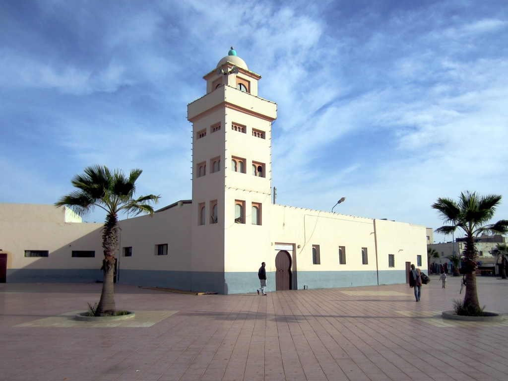 The oldest mosque in Dakhla, Western Sahara.